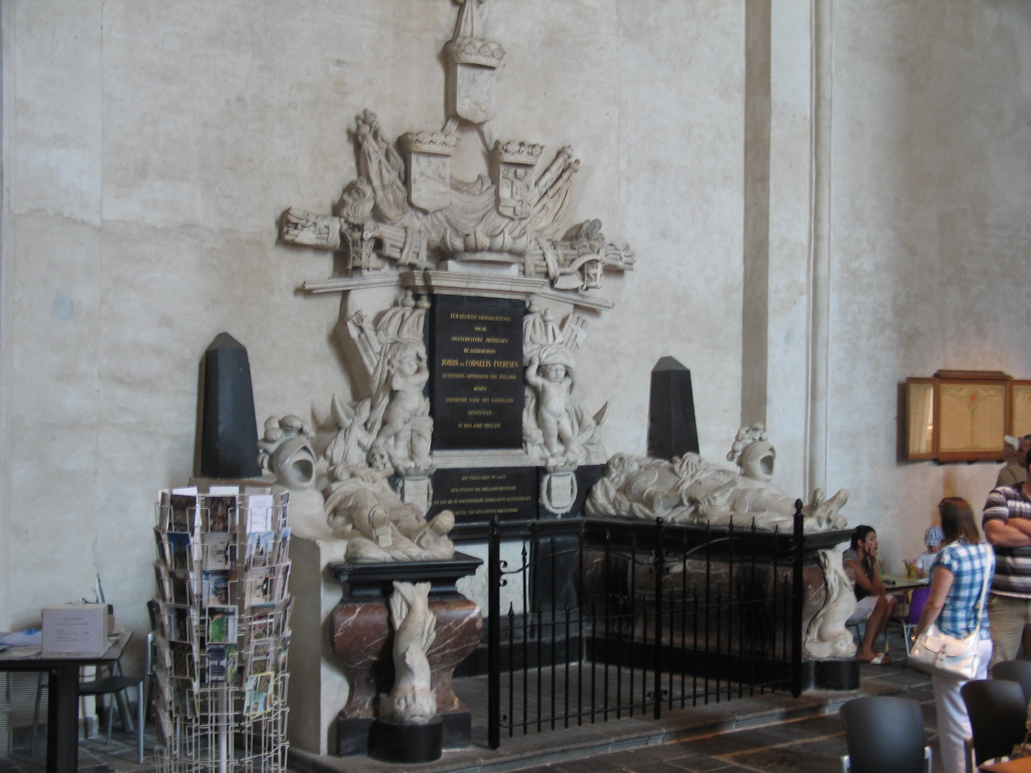 Tomb monument for the brothers Cornelis and Johan Evertsen (Sculptor: Rombout Verhulst, Finished: 1683)